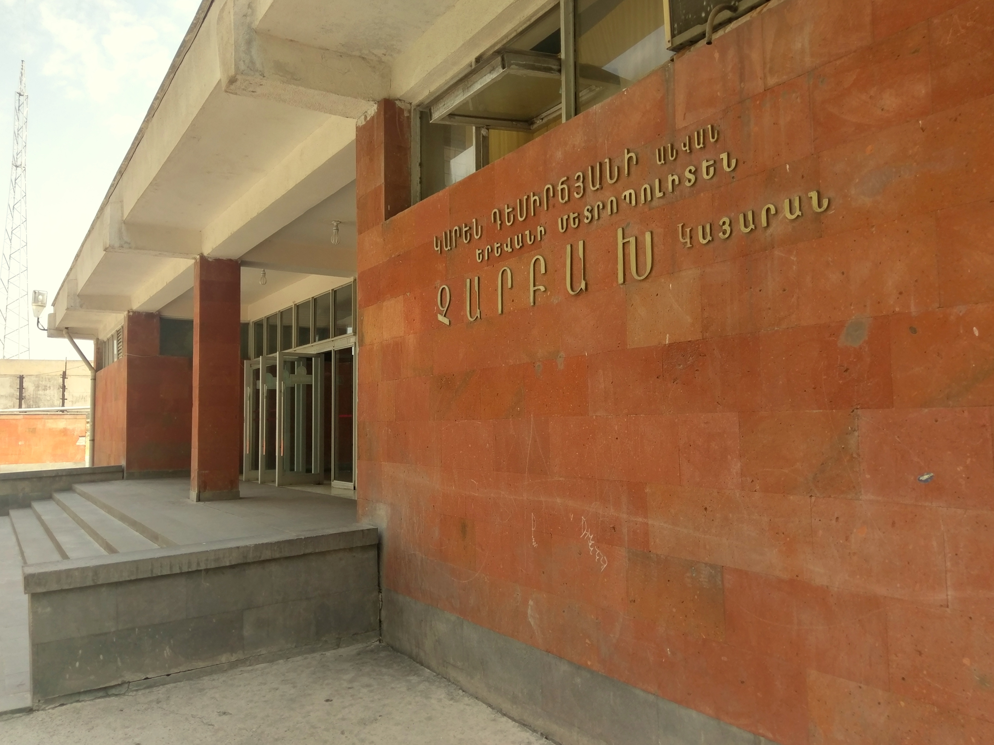 Charbakh metro, Yerevan, Armenia.